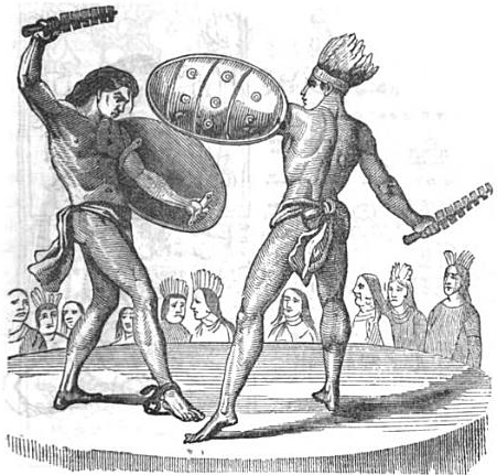 This drawing was found on page 43. The original caption for the drawing was "Gladiatorial Sacrifice". The paragraph that describes the drawing was also on page 43. That paragraph said that an alternative method of human sacrifice was chaining a victim by one foot and having him fight a "succession of champions". It said that if he "vanquished" all of them, he would be freed. If he was defeated, it said that he would, "of course", pay with his life.